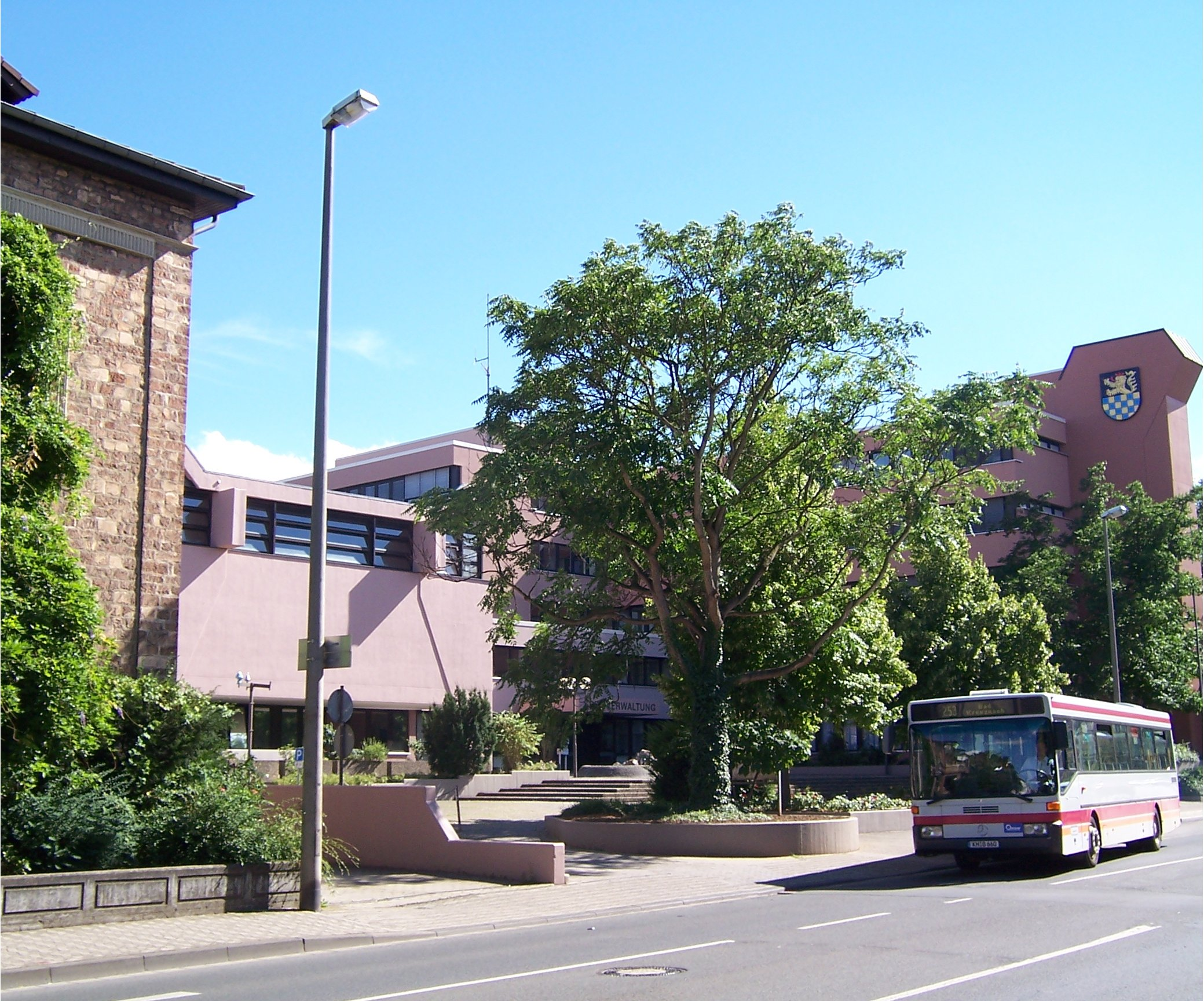 Seat of the administration of the district of Bad Kreuznach, Germany